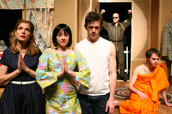 Performance of a 2007 Alchemy Theatre Company performance of Christopher Durang's The Vietnamization of New Jersey in New York City, directed by Robert Saxner. From left, Blanche Baker as Ozzie Ann, Susan Gross as Liat, Nick Westrate as Et, Frank Deal as Larry and Corey Sullivan as David. Photograph by Trevor Oswalt.